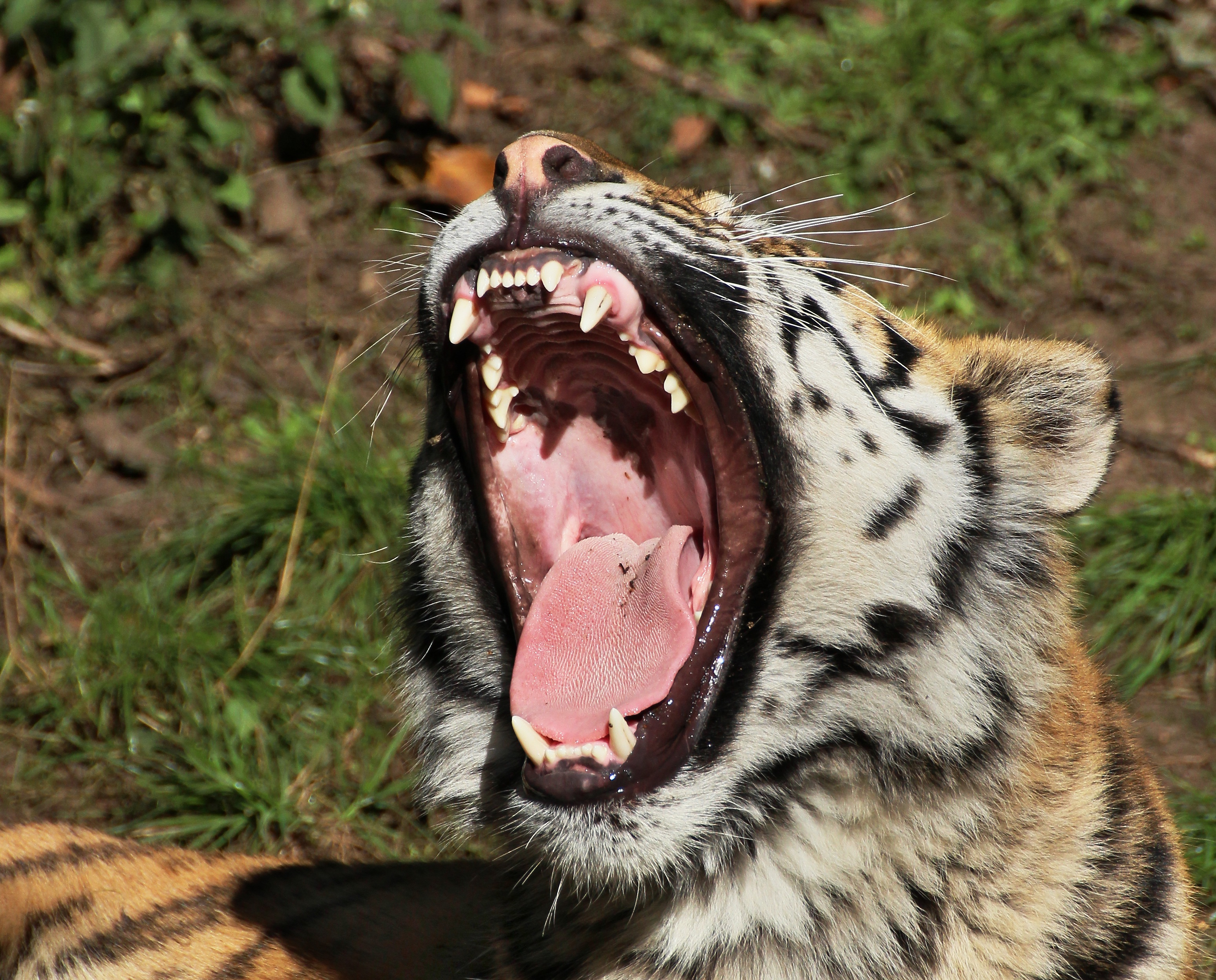 Young Panthera tigris altaica